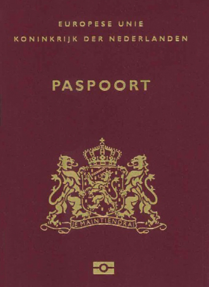 Self scanned front page of Dutch passport 2011 edition